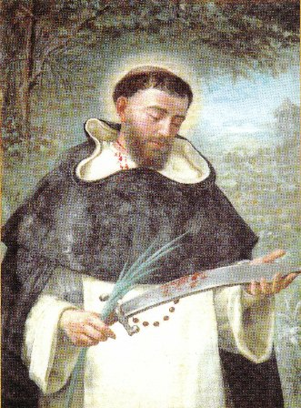 Saint Peter Almató, dominican friar martyr at Vietnam in 1861